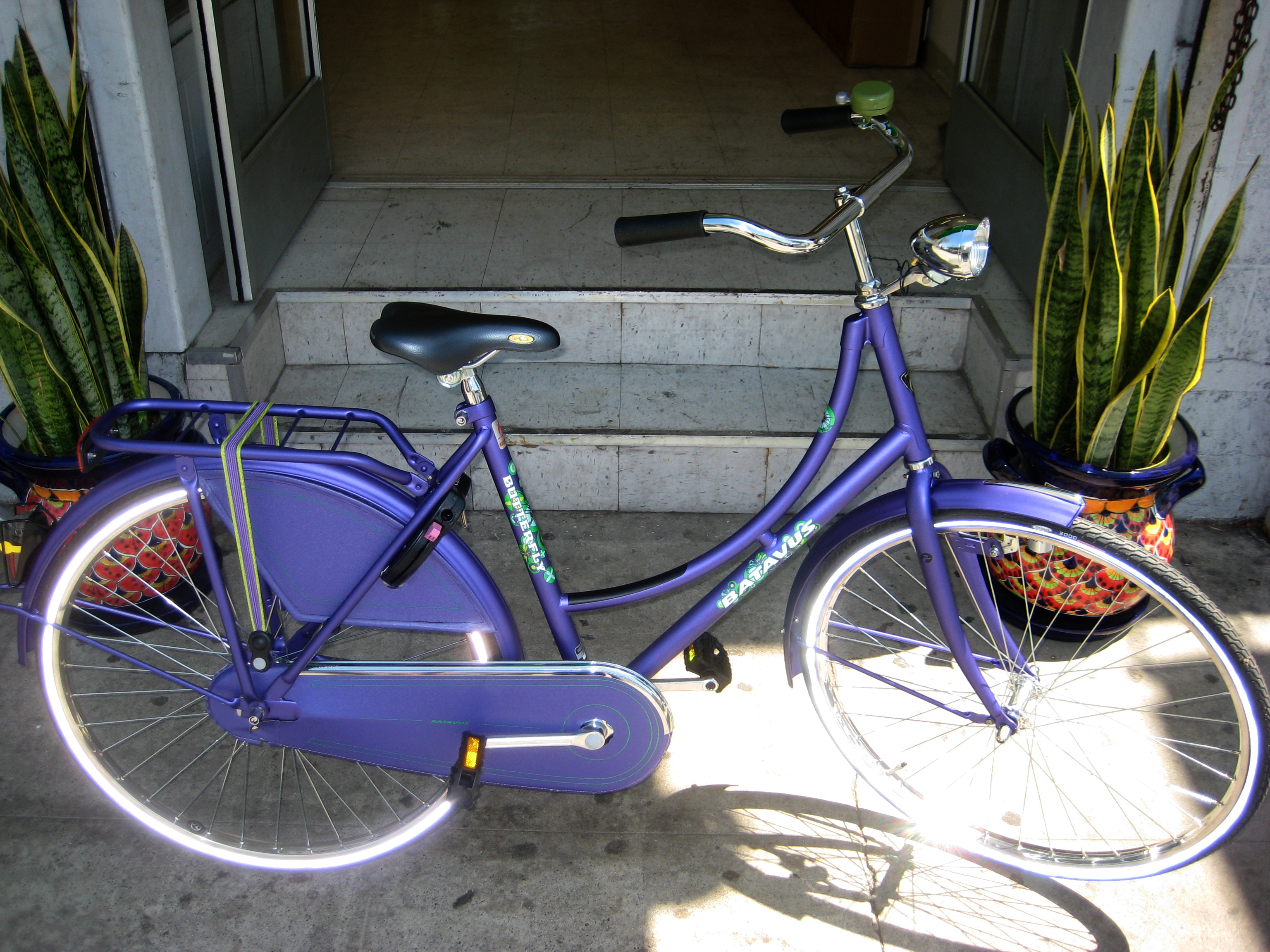 Lilac Batavus Butterfly, smaller 26 x 1 3/8 in (590 mm) model.